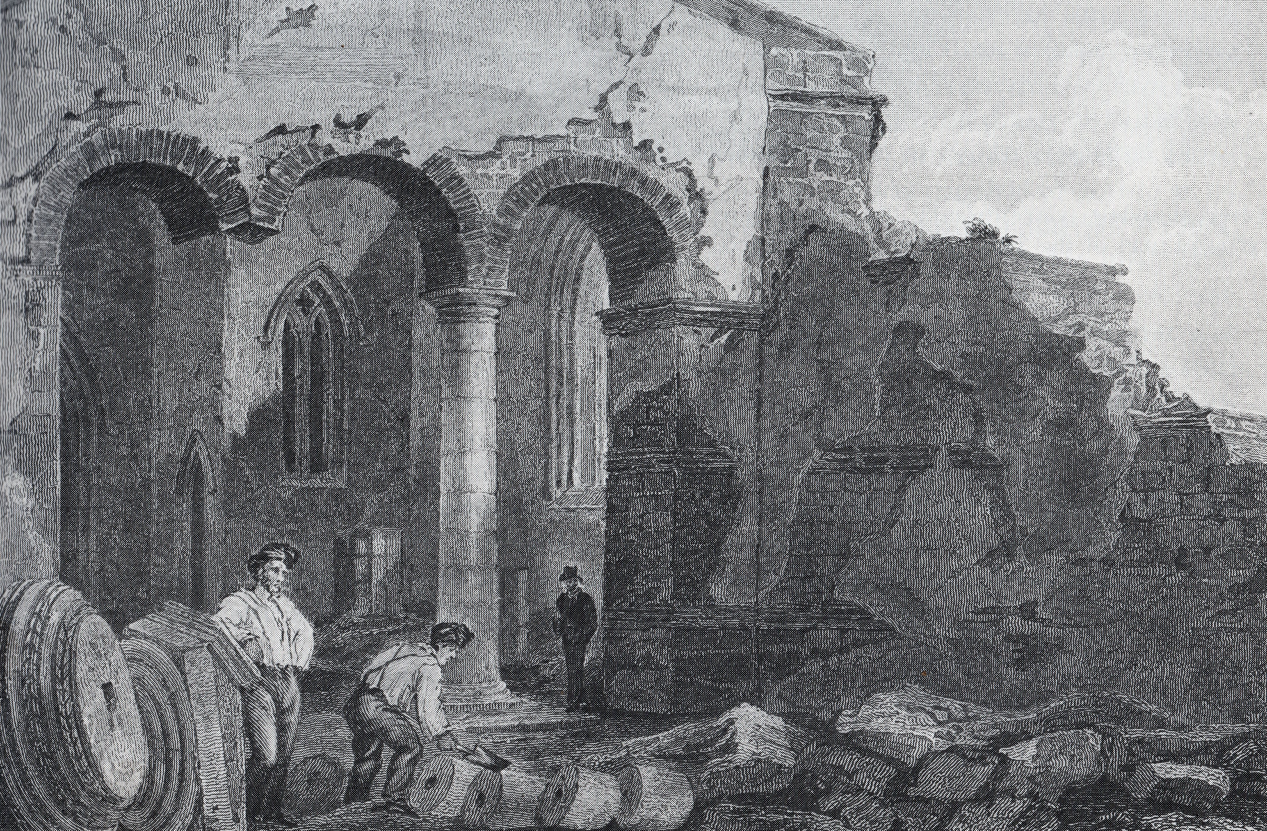 Engraving taken from a watercolour showing the demolition of St Mary's Church, Reculver, in 1809. Viewed from the south-east, the main feature is the triple chancel arch, which formed part of the original church founded in 669 AD: one of the two columns has already been taken down.